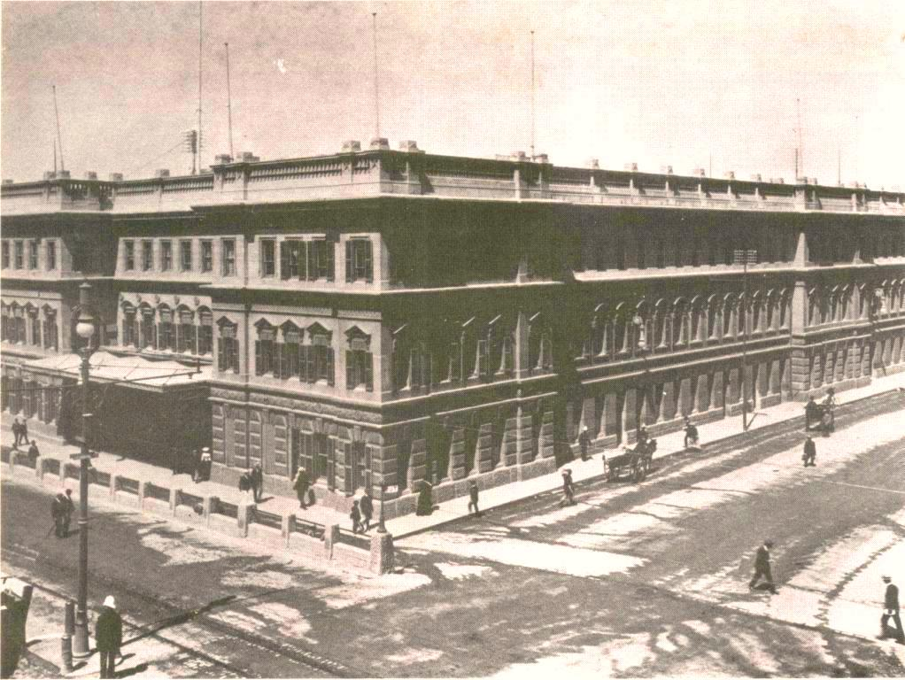 Cape Towns Victoria Station - the second to be built. Work commenced by P.M. John Molteno in 1875. Image taken from direction of Adderley Street in circa 1900. Cape Archives. Cape Town.